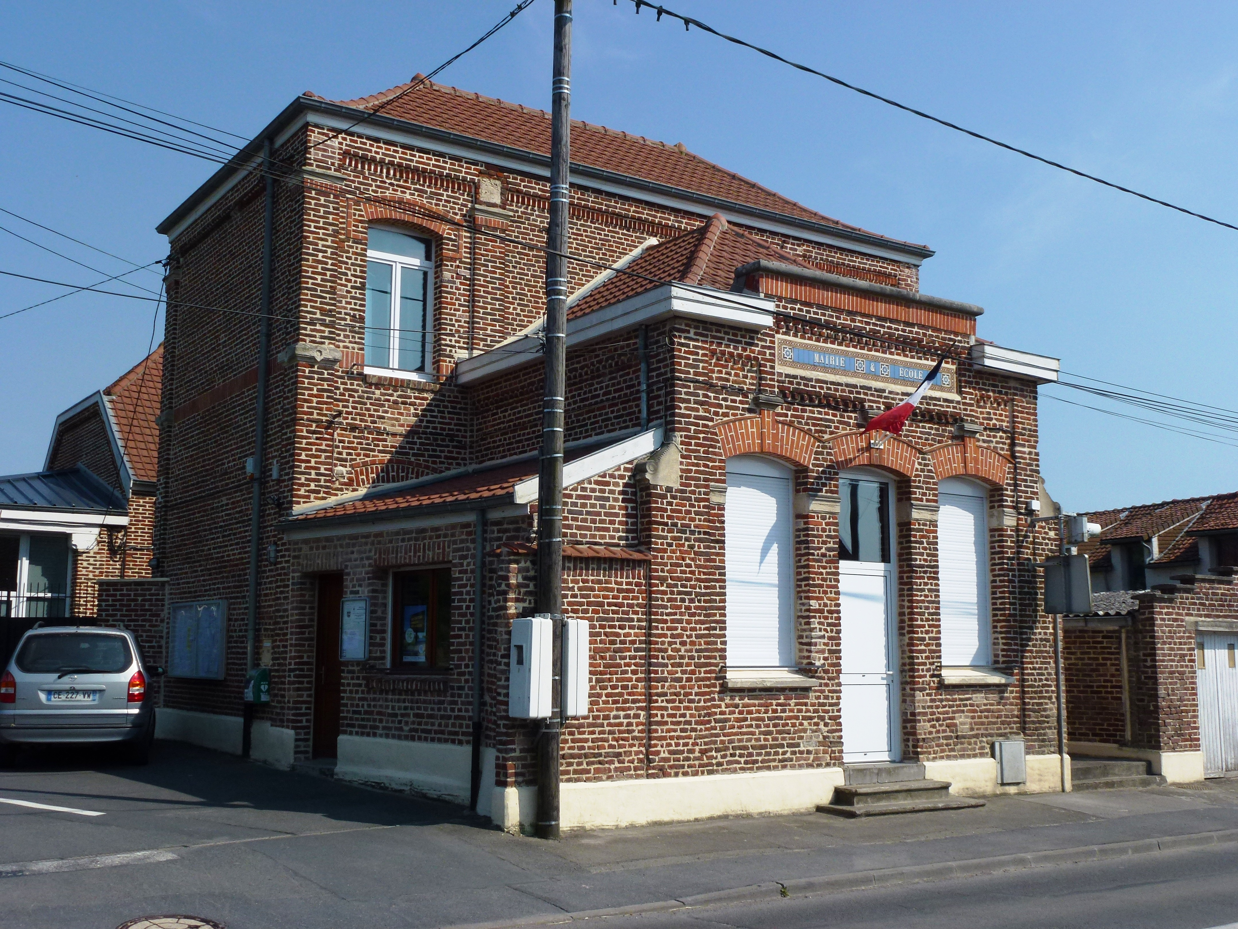 Oisy (Nord, Fr) mairie-école